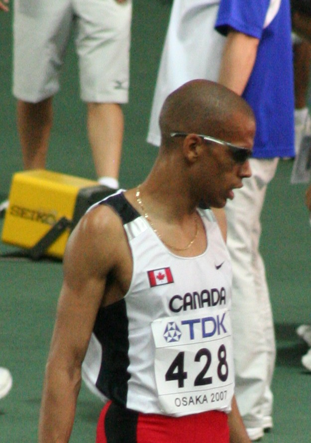 World Athletics Championships 2007 in Osaka - Canadian 800 metres runner Gary Reed